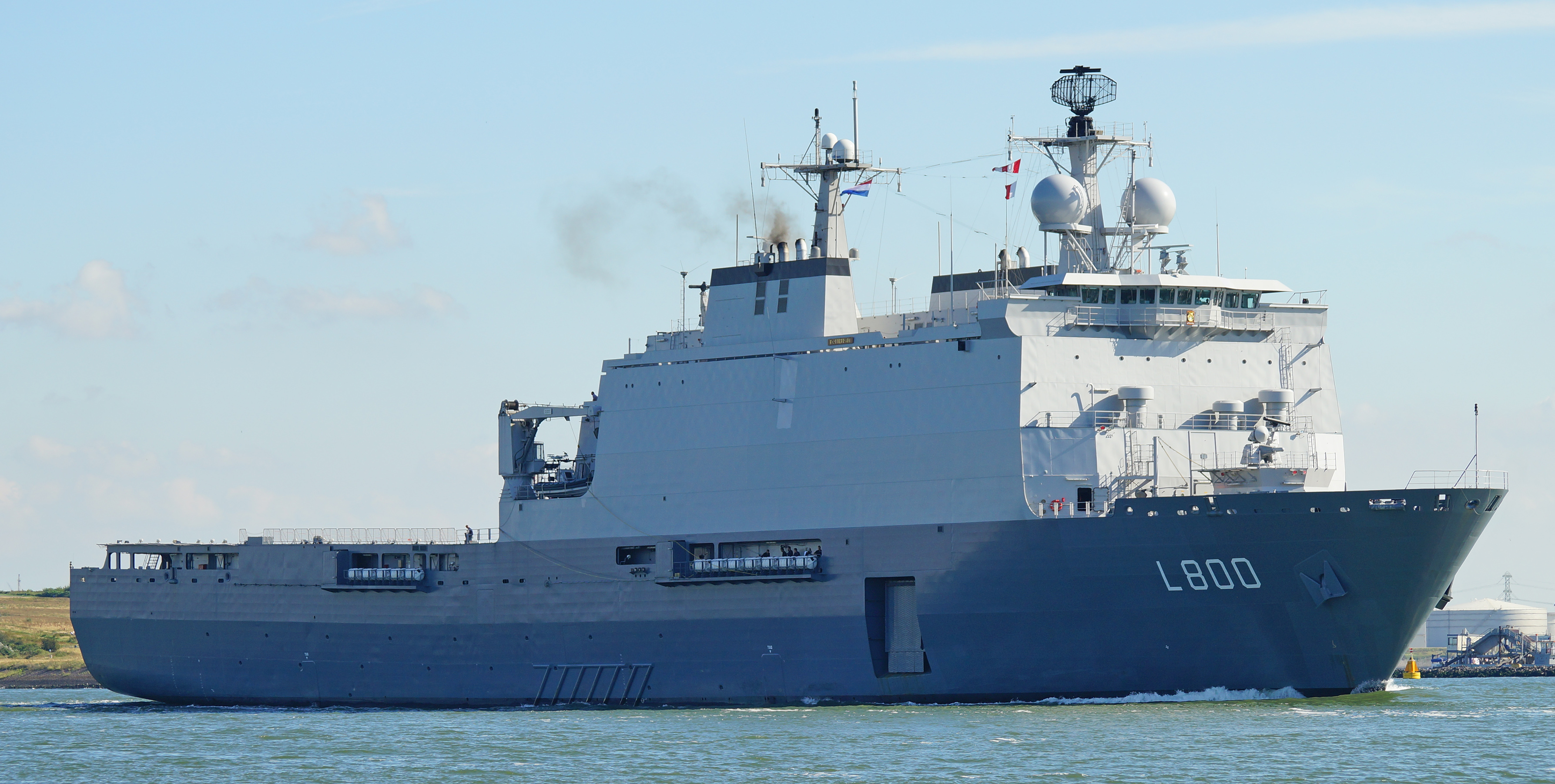 HNLMS Rotterdam at Nieuwe Waterweg